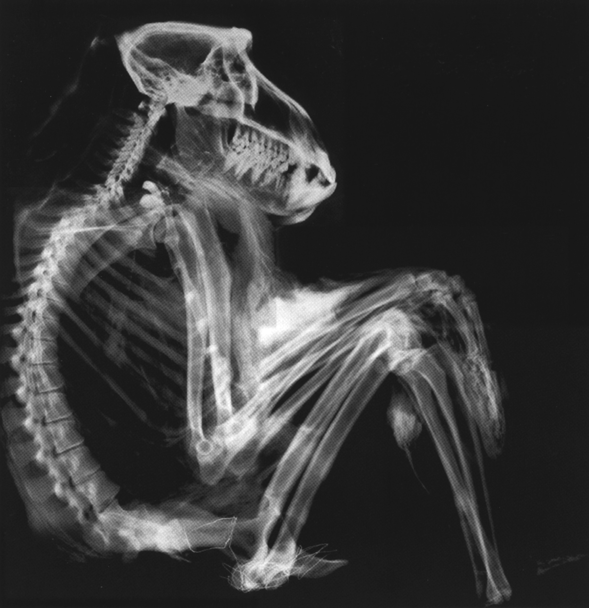 X-ray scan of a baboon mummy